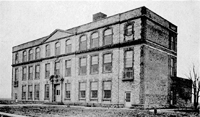 Jones Junior High School upon completion